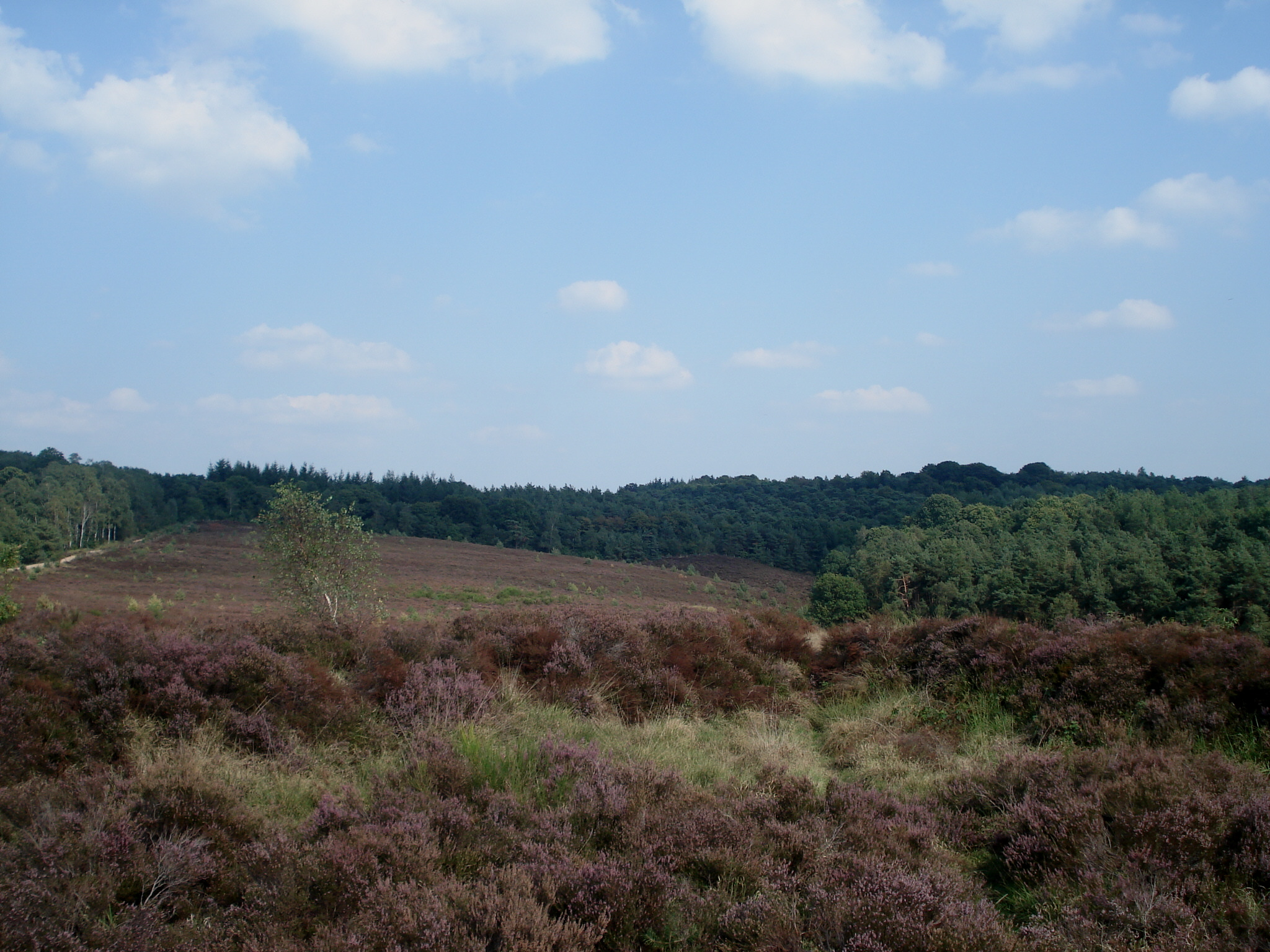 Picture of the Mookerhei (or: Mookerheide)